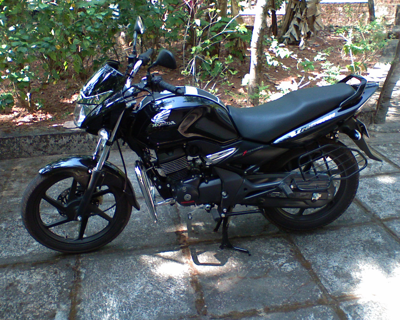 Honda Unicorn